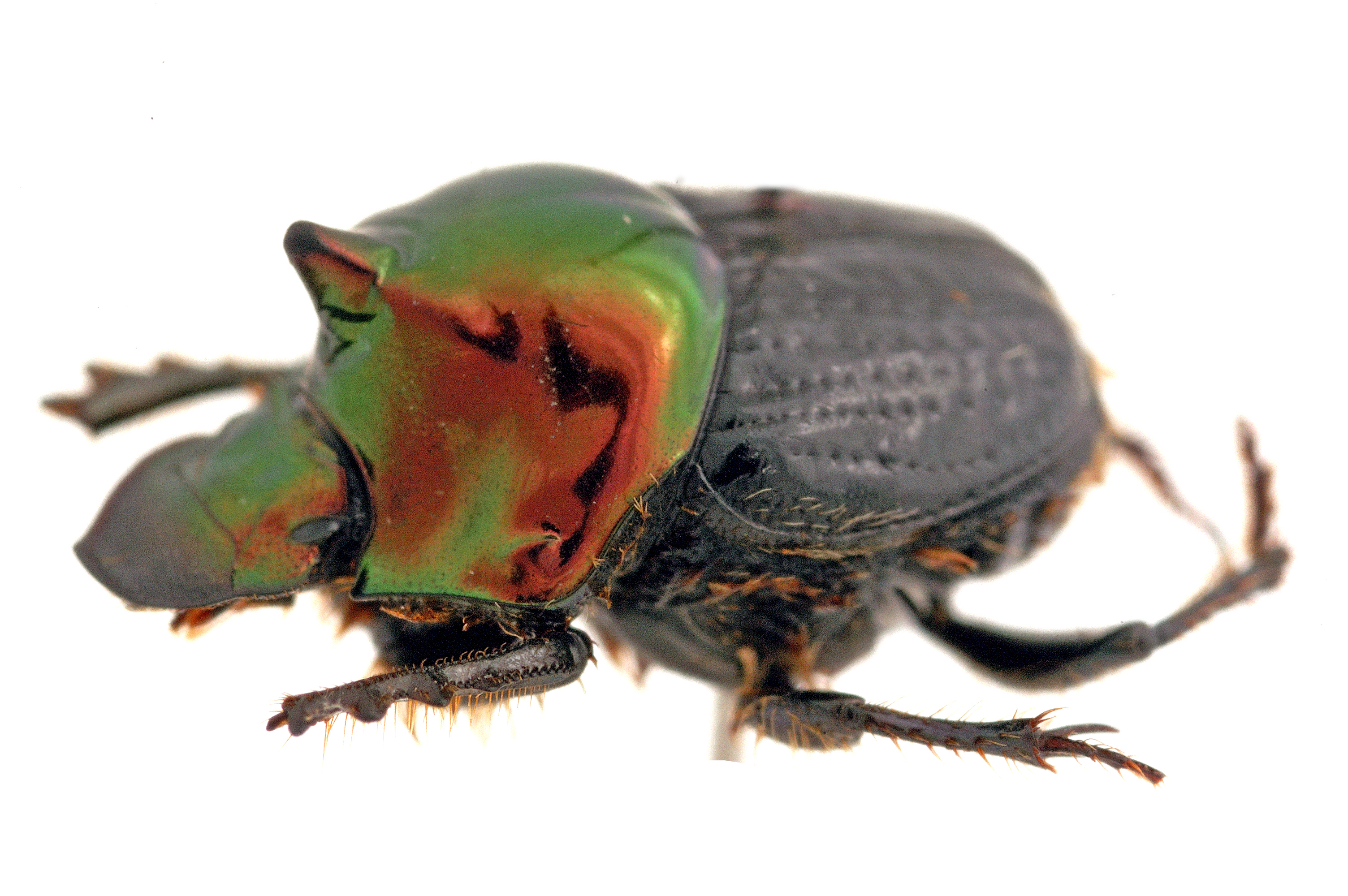 Dung beetle Onthophagus dandalu. Photo credit: David McClenaghan